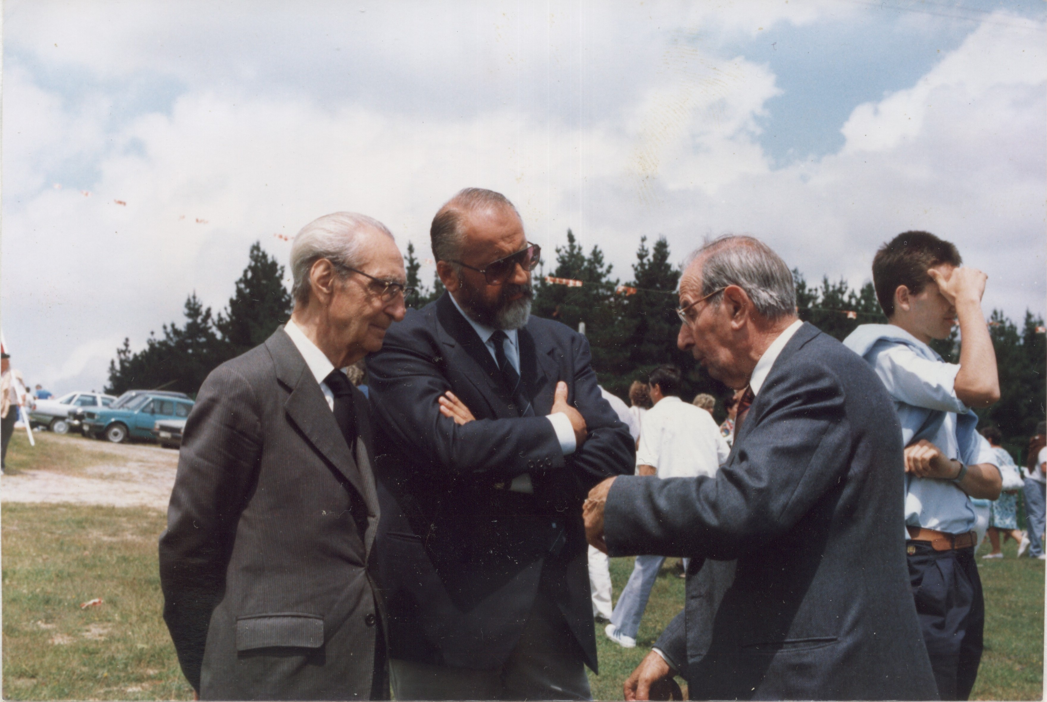 The ex-lehendakari Jesus Maria Leizaola and EAJ-PNV politician Joseba Elosegi. 12th July. El Suceso, Karrantza. Bizkaia, Basque Country.